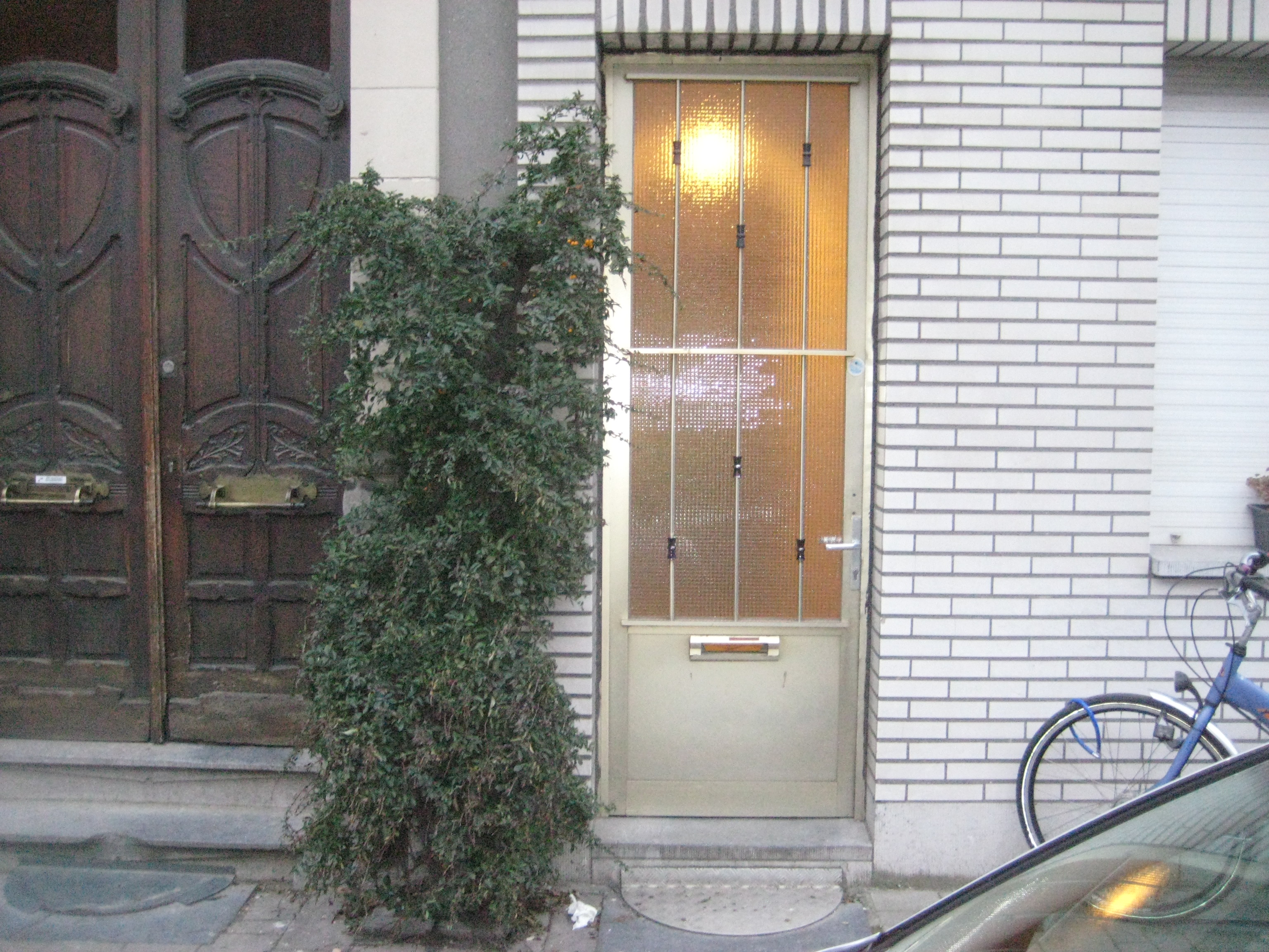 Voorgevel van de Eisenmann Synagoge, Oostenstraat 29